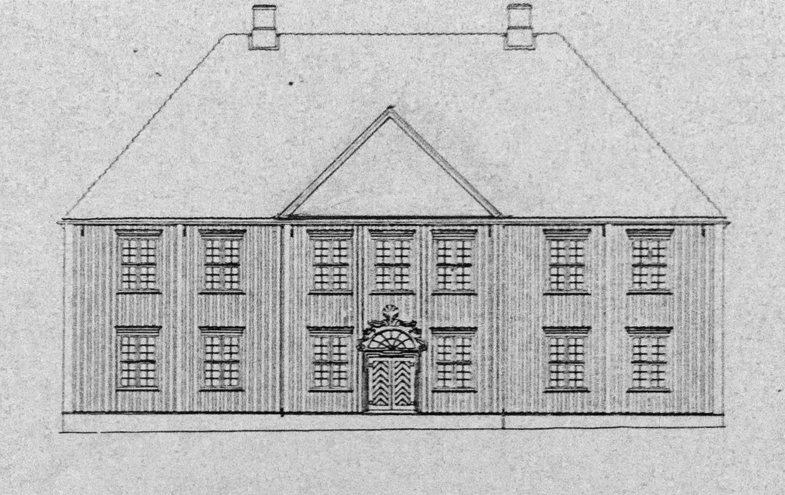 Drawing of the West facade of Lerchendal gård, Trondheim, Norway; illustrating the size and roof angle of the frontispiece that was removed around 1870.